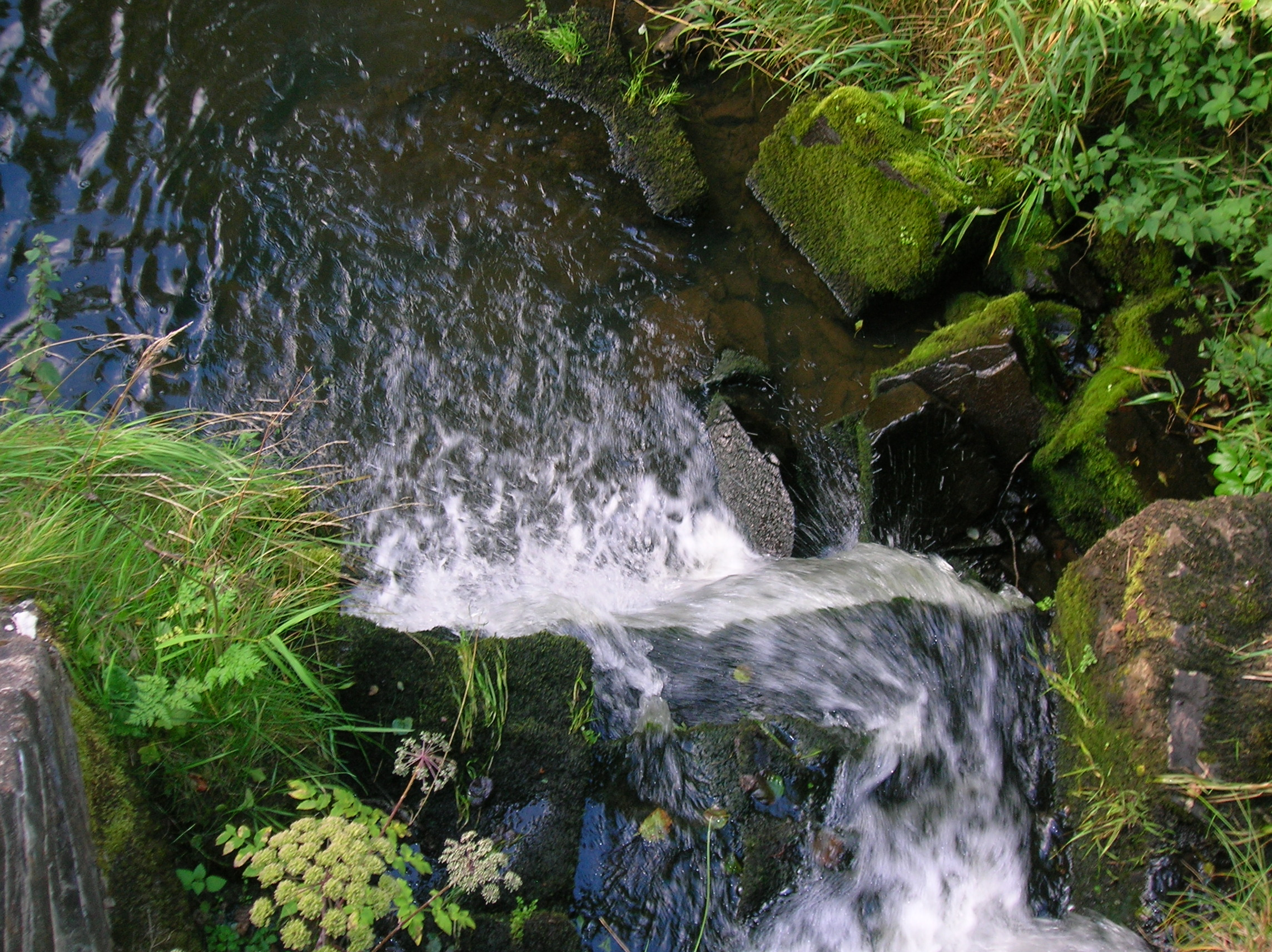 Linn Spout on the Gunshill Burn from above, old Kirkwood Estate. East Ayrshire, Scotland.